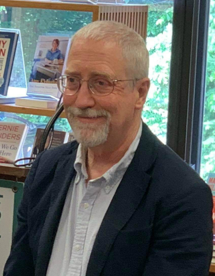 Historian Alan Taylor at Politics and Prose in 2019